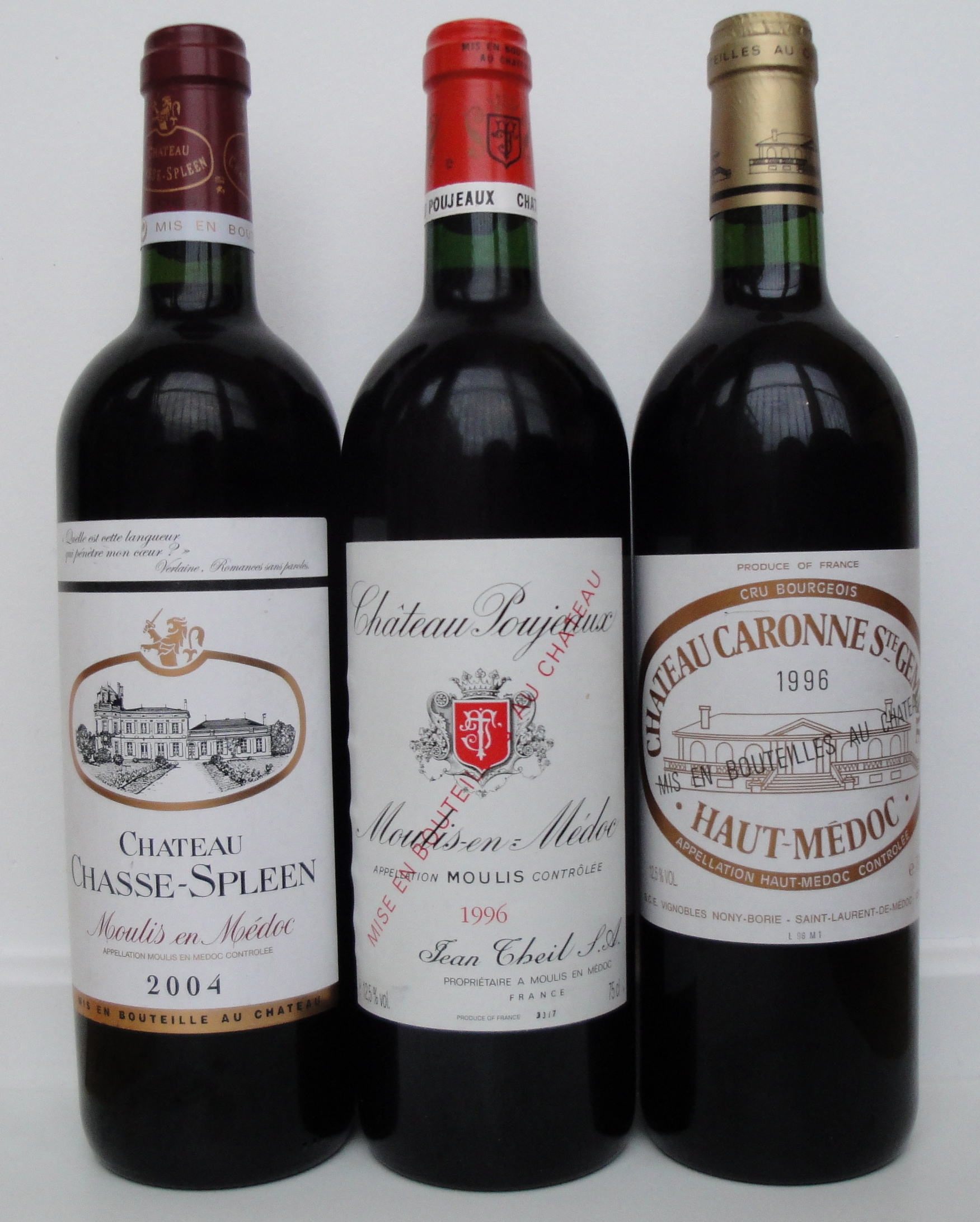 Three Cru Bourgeois wines from Bordeaux. Château Chasse-Spleen, a Cru Bourgeois Exceptionnel, Château Poujeaux, a Cru Bourgeois Exceptionnel, and Château Caronne Sainte-Gemme, a Cru Bourgeois Supérieur.